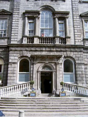 exterior - Powerscourt Townhouse Centre.